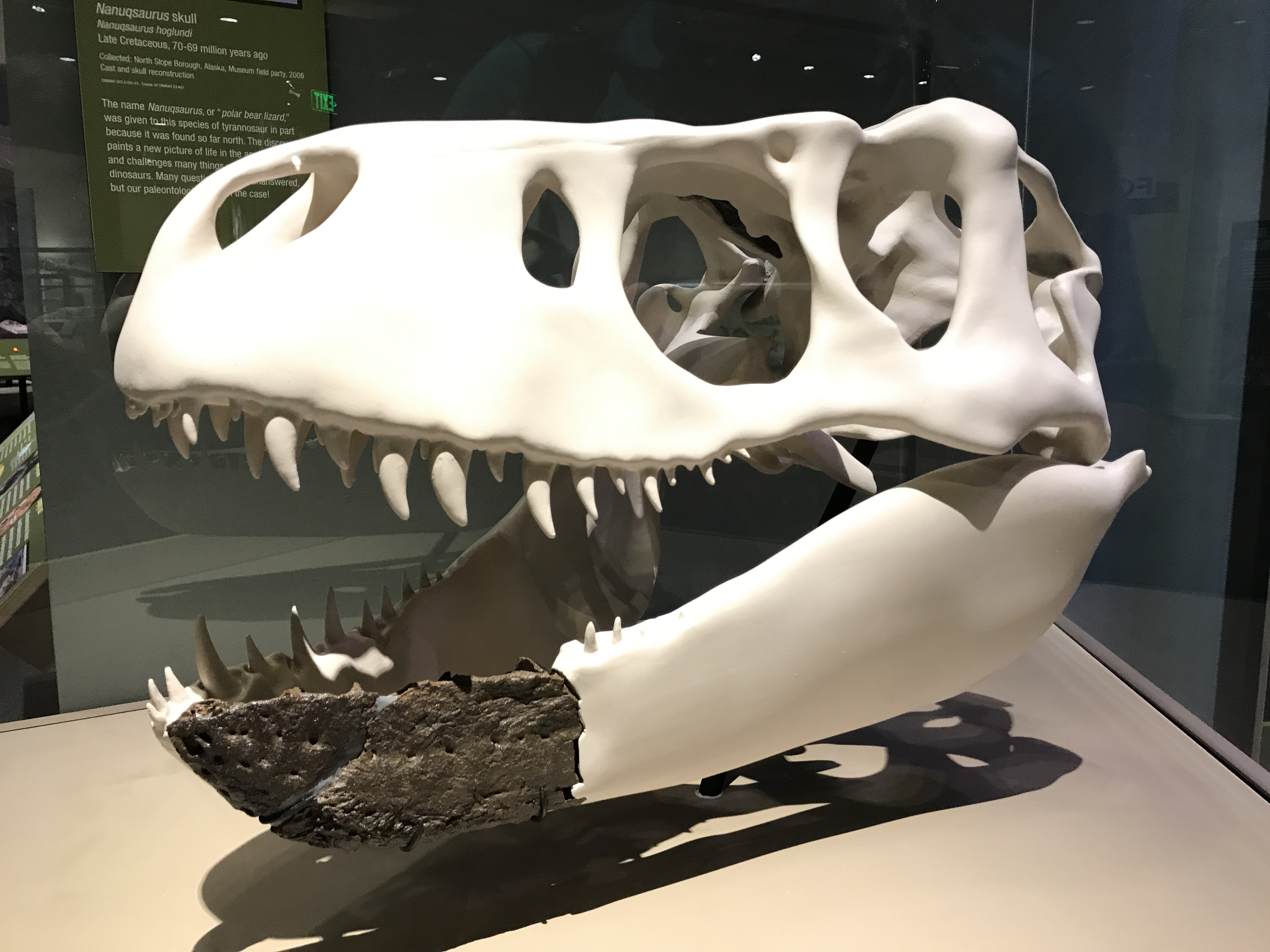 PEROT MUSEUM OF NATURE AND SCIENCE in Dallas, Texas Feel free to use this image, with attribution to "Jonathan Cutrer" and link to